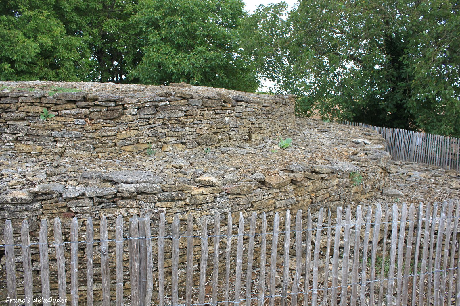 La ciste des Cous